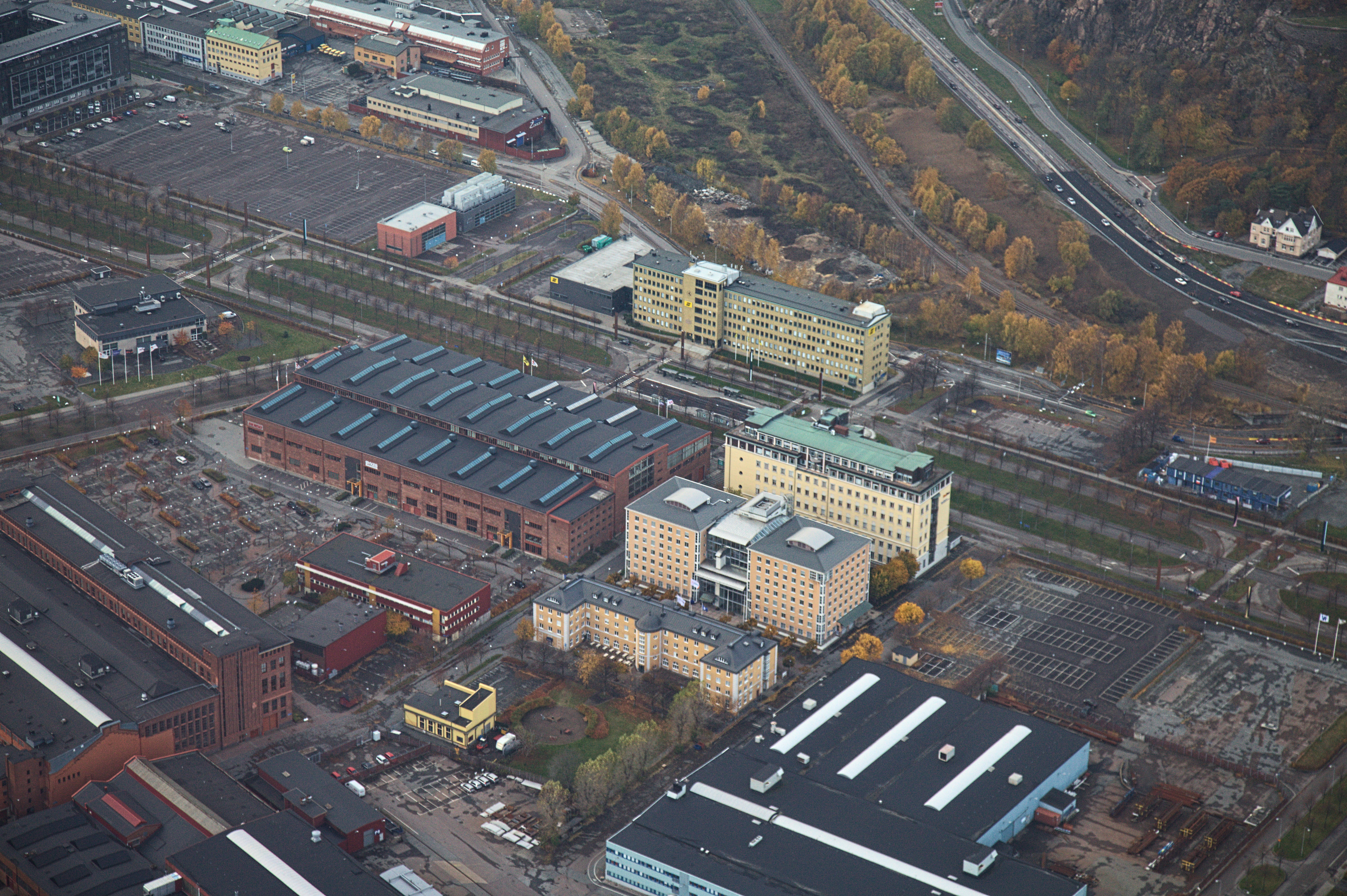 Photo taken on a helicopter over Gothenburg